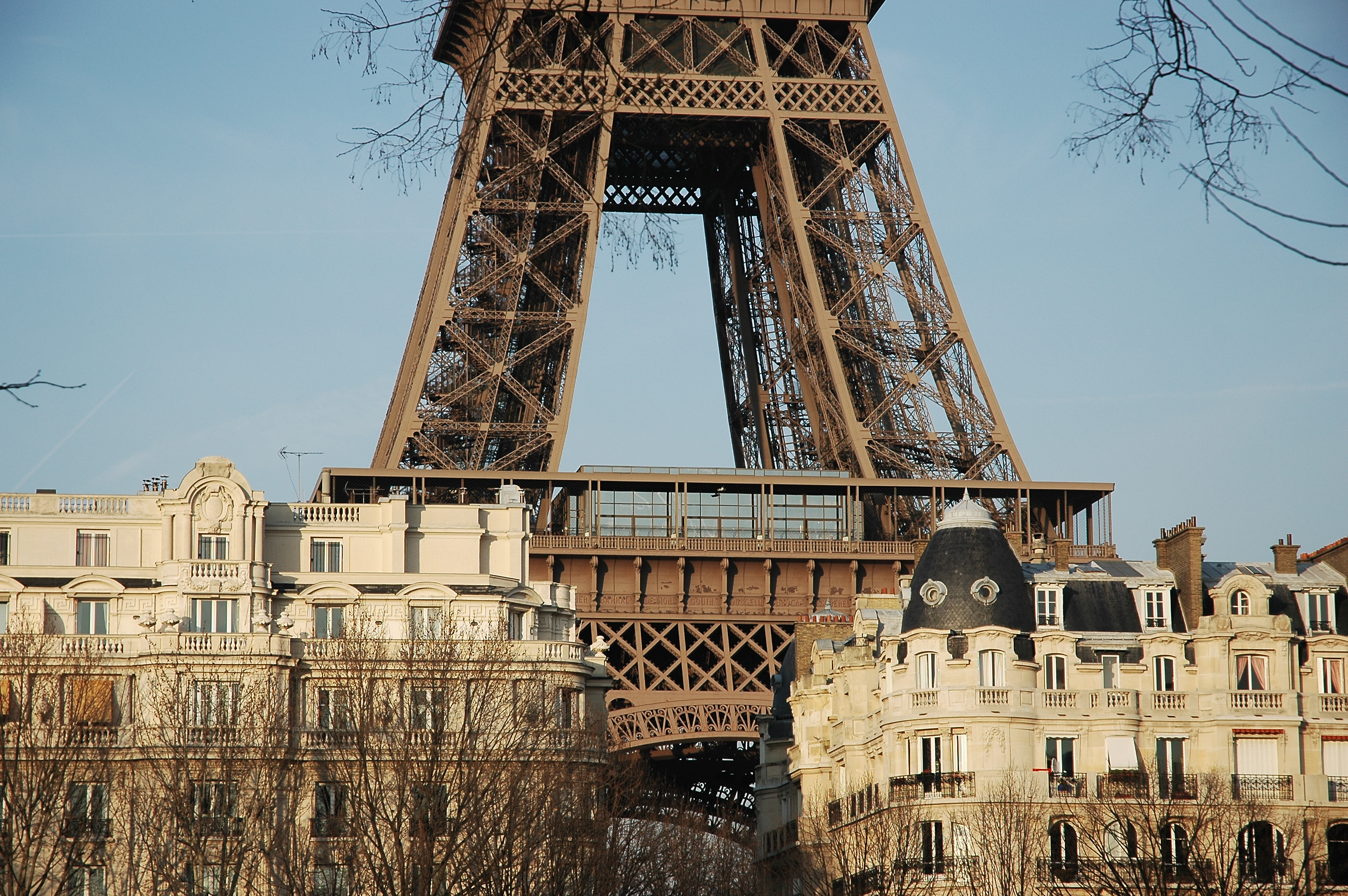 The Eiffel Tower overhanging Paris. Avenue de Suffren and rue de Buenos Aires, XVe arrondissement, Paris, France.